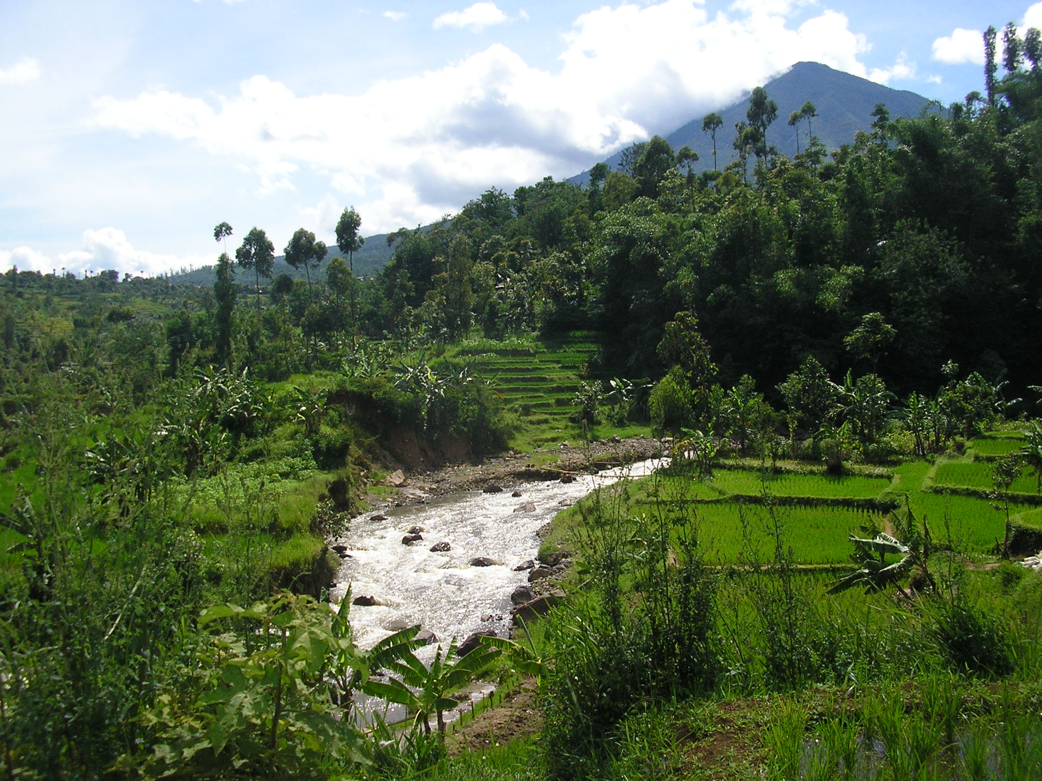 Scenery at Garut, West Java (Indonesia)